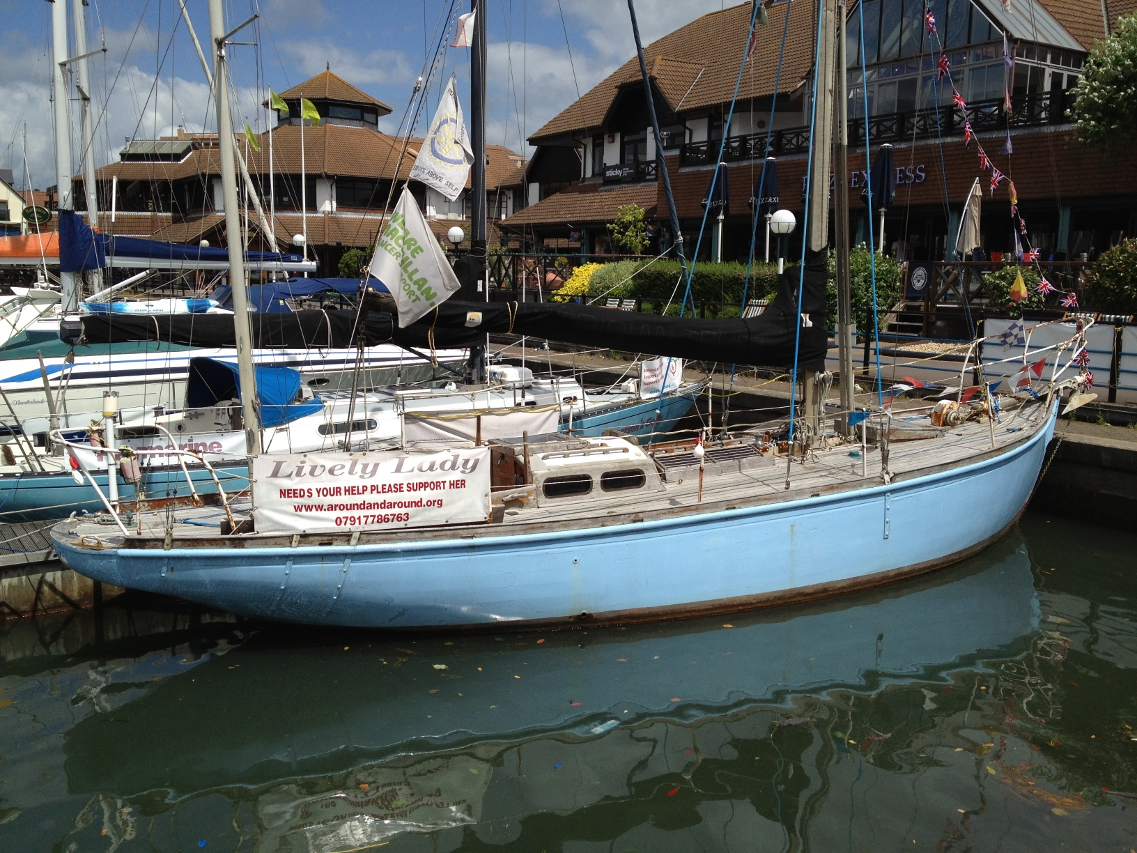 This is a picture of the historic Sailing Yacht 'Lively Lady' that was used by Alec Rose to participate in the 1964 single handed transatlantic yacht race. It was moored in Port Solent Marina, Portsmouth, UK in June 2012